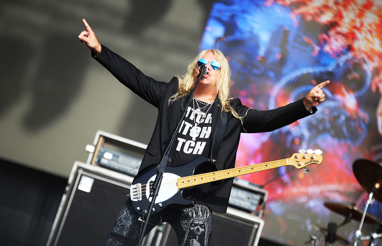 Primal Fear 2019-1